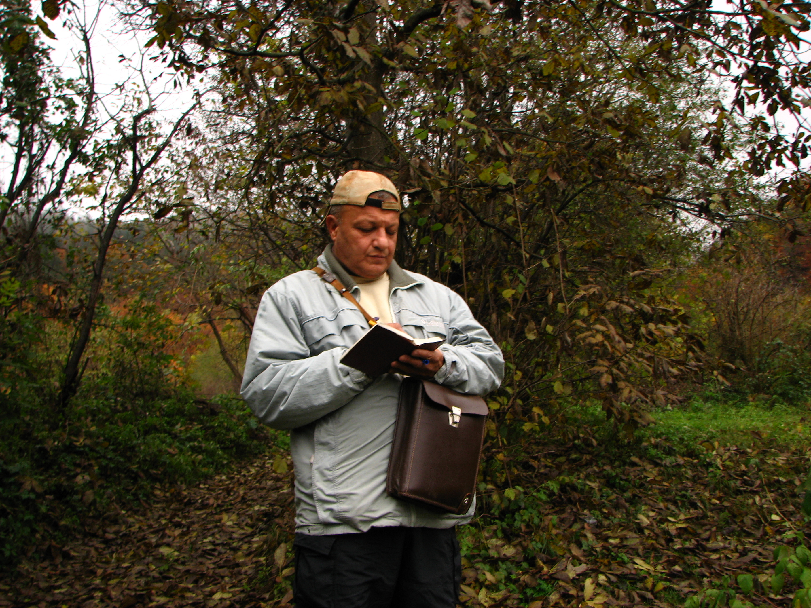 Bulgarian geographer Nikola Todorov